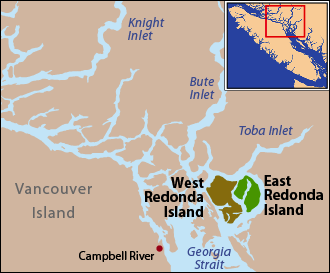 This is a locator map of East Redonda Island and West Redonda Island. I, Pfly, made it with ArcGIS, Adobe Illustrator, and Adobe Photoshop. The coastline data is from the Digital Chart of the World.